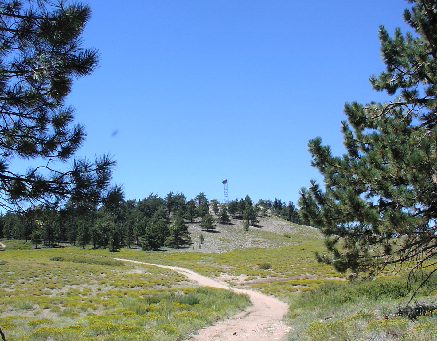 Summit of Mount Pinos, taken from the southwest of the peak. Pinus jeffreyi ( Jeffrey Pine) trees along hiking trail in foreground. Photo by Antandrus, 8/28/06, PD-self